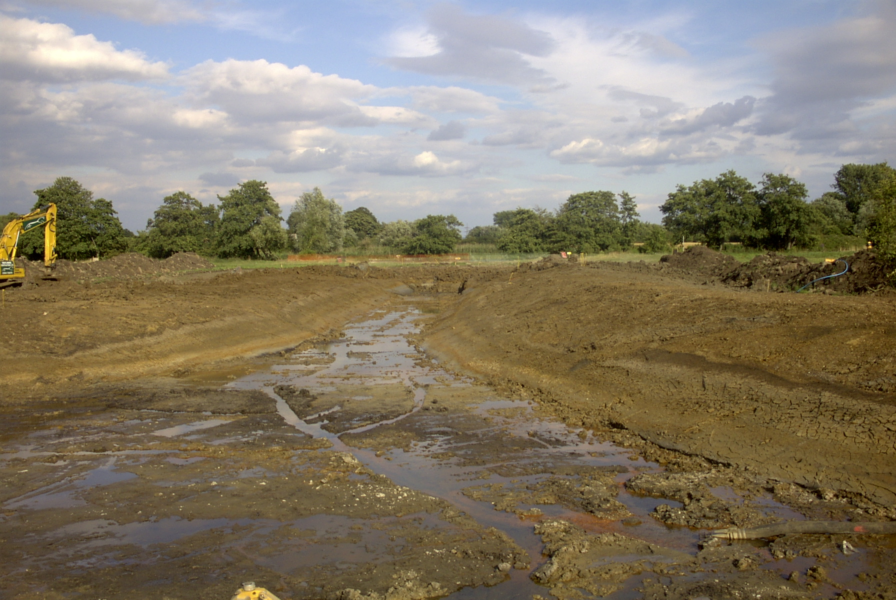 The new conection of the Wilts and Berks Canal under construction